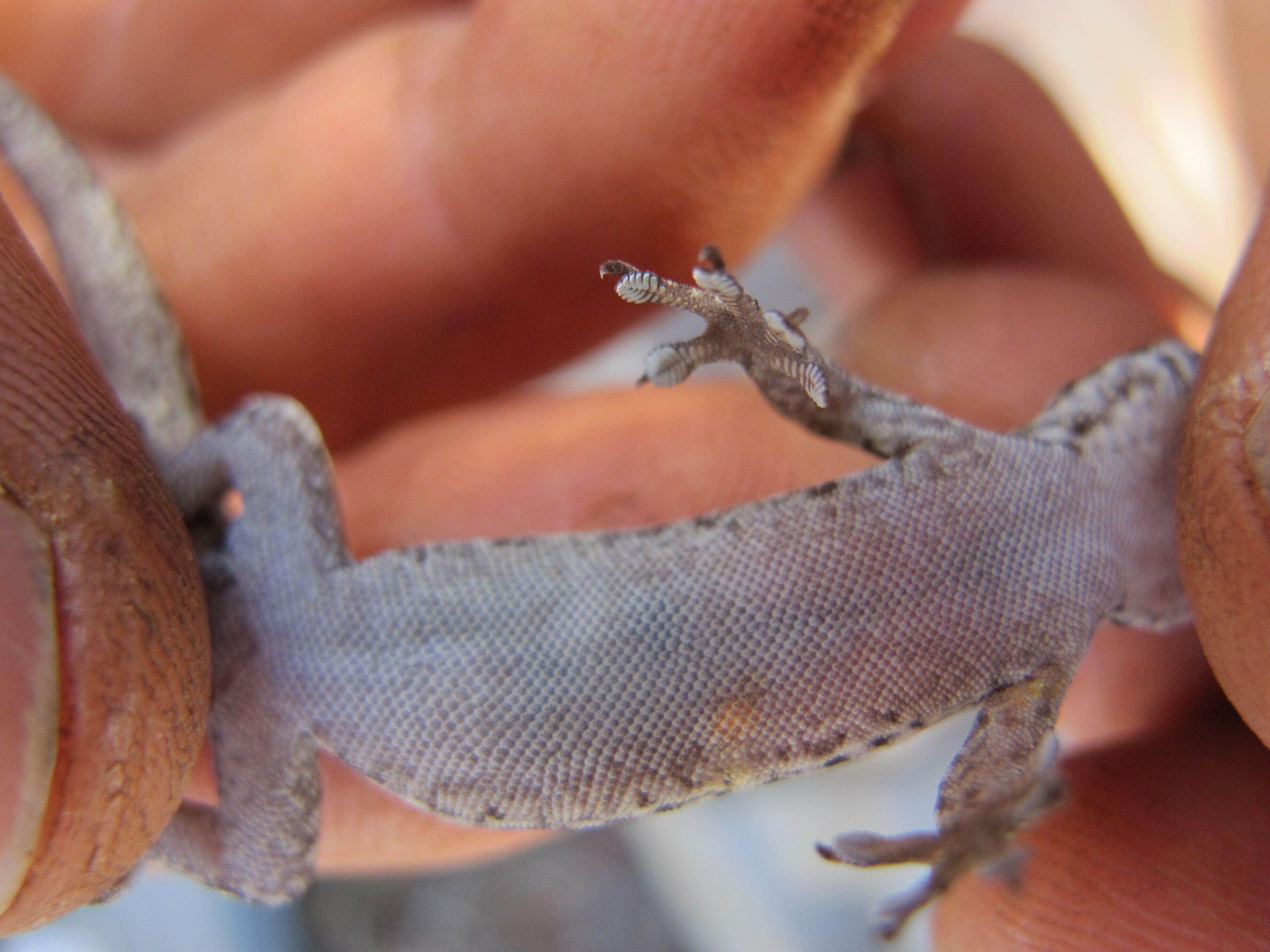 under part of gehyra variegata, foot and claws very well visible